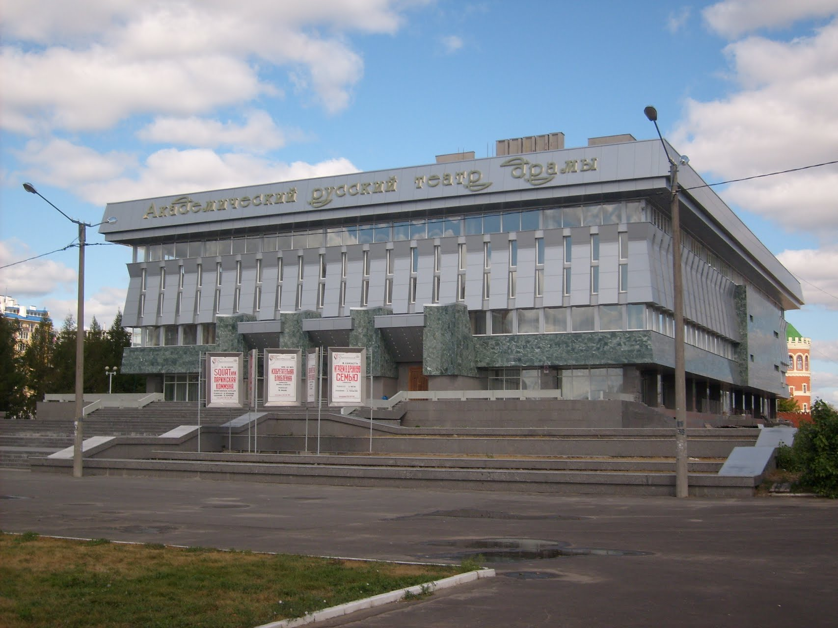 Academic Russian Drama Theatre named after Georgi Konstantinov